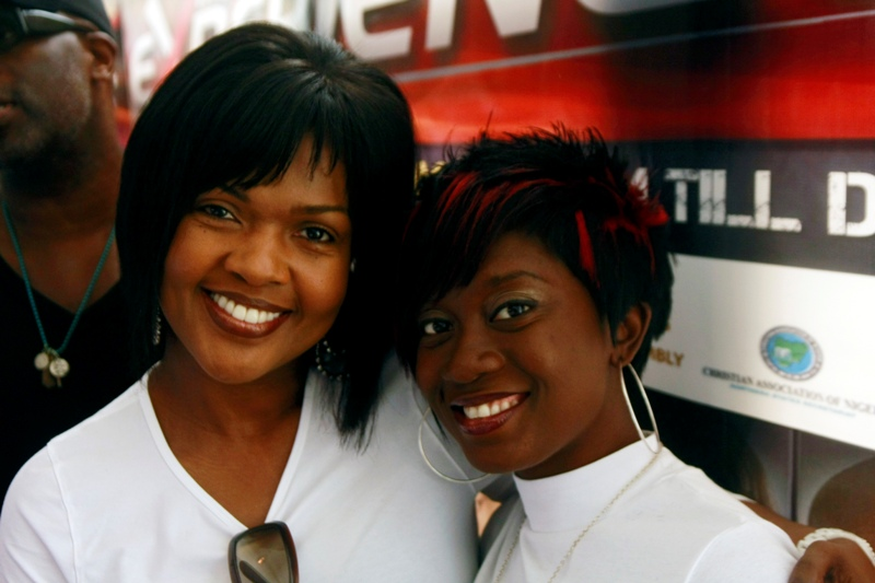 nikki laoye backstage at the experience 2009 with cece winans